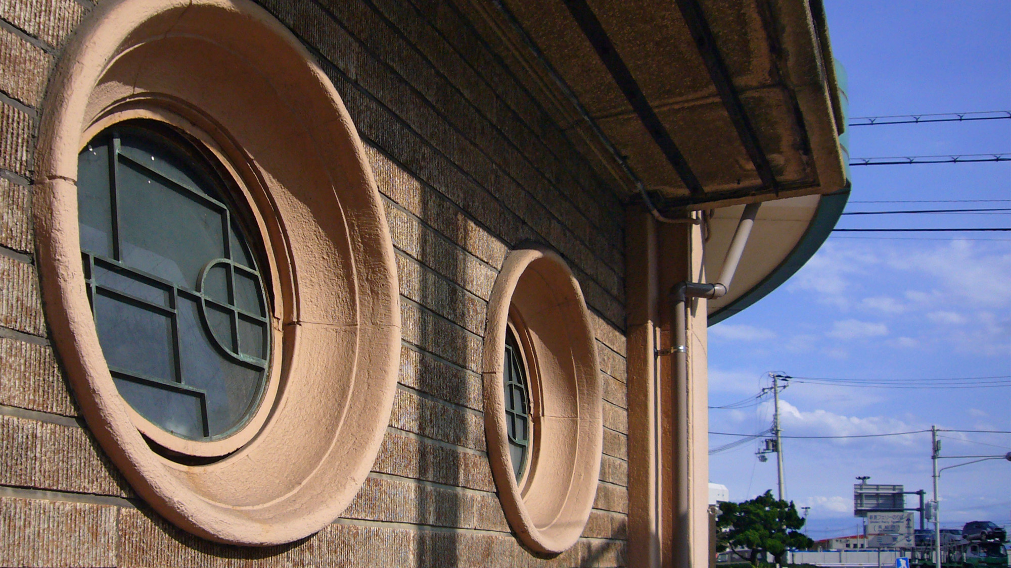 Shinko trade hall in Kobe, Japan